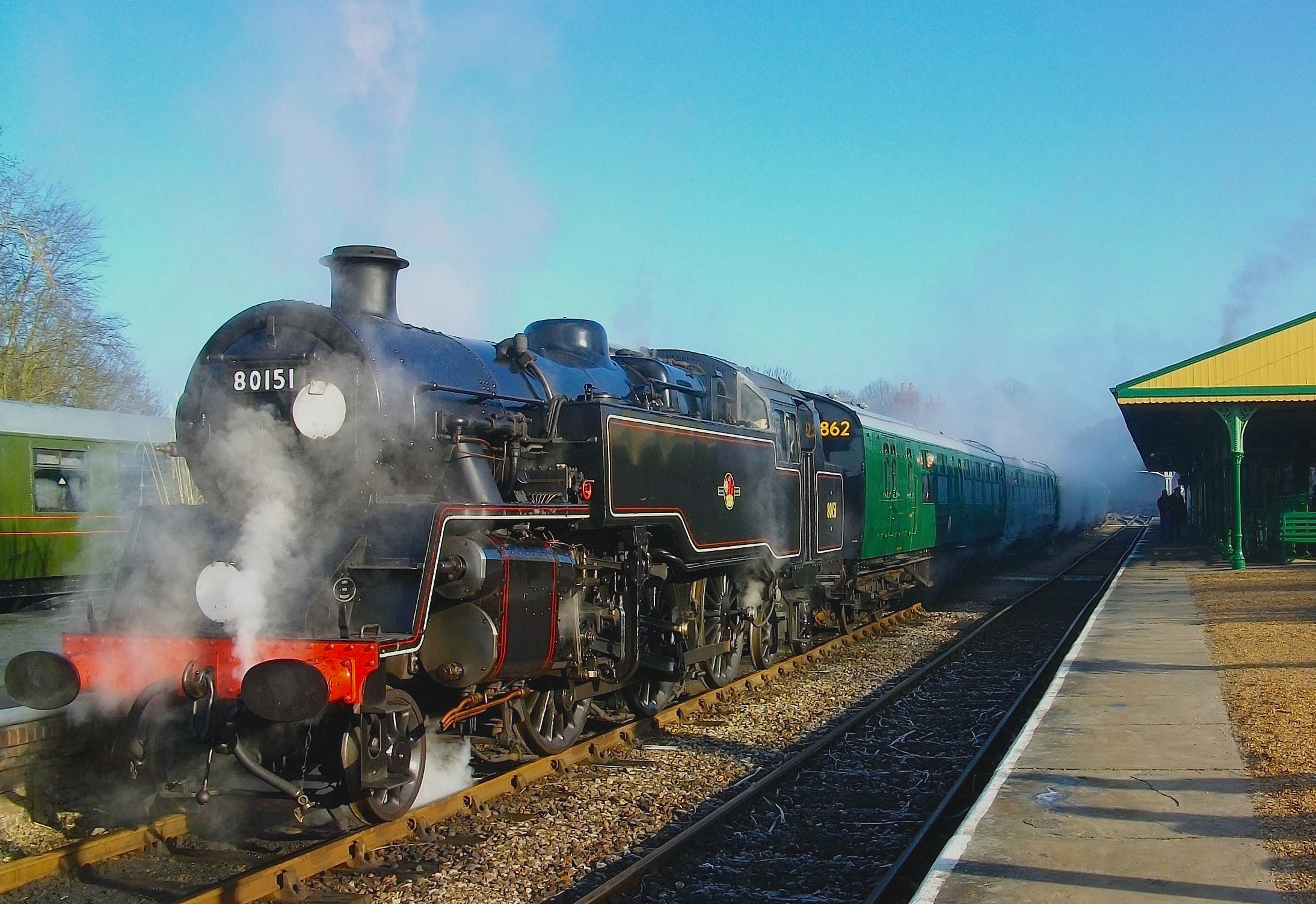 British Railways 2-6-4T Class Standard Four No. 80151 and train are seen at Horsted Keynes Station on the Bluebell Railway